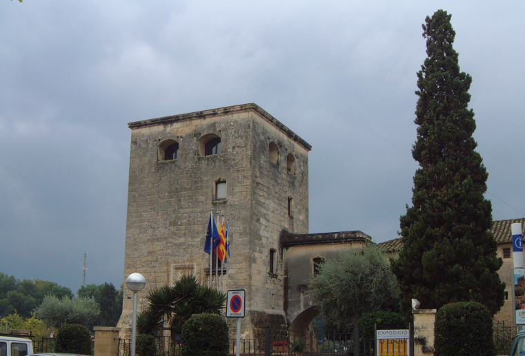 The pirate defence tower Torre Vella in Salou, Spain.